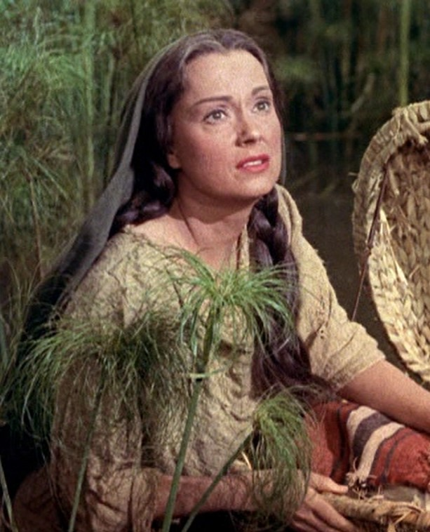 Cropped screenshot of Martha Scott from the trailer for the film The Ten Commandments (1956).